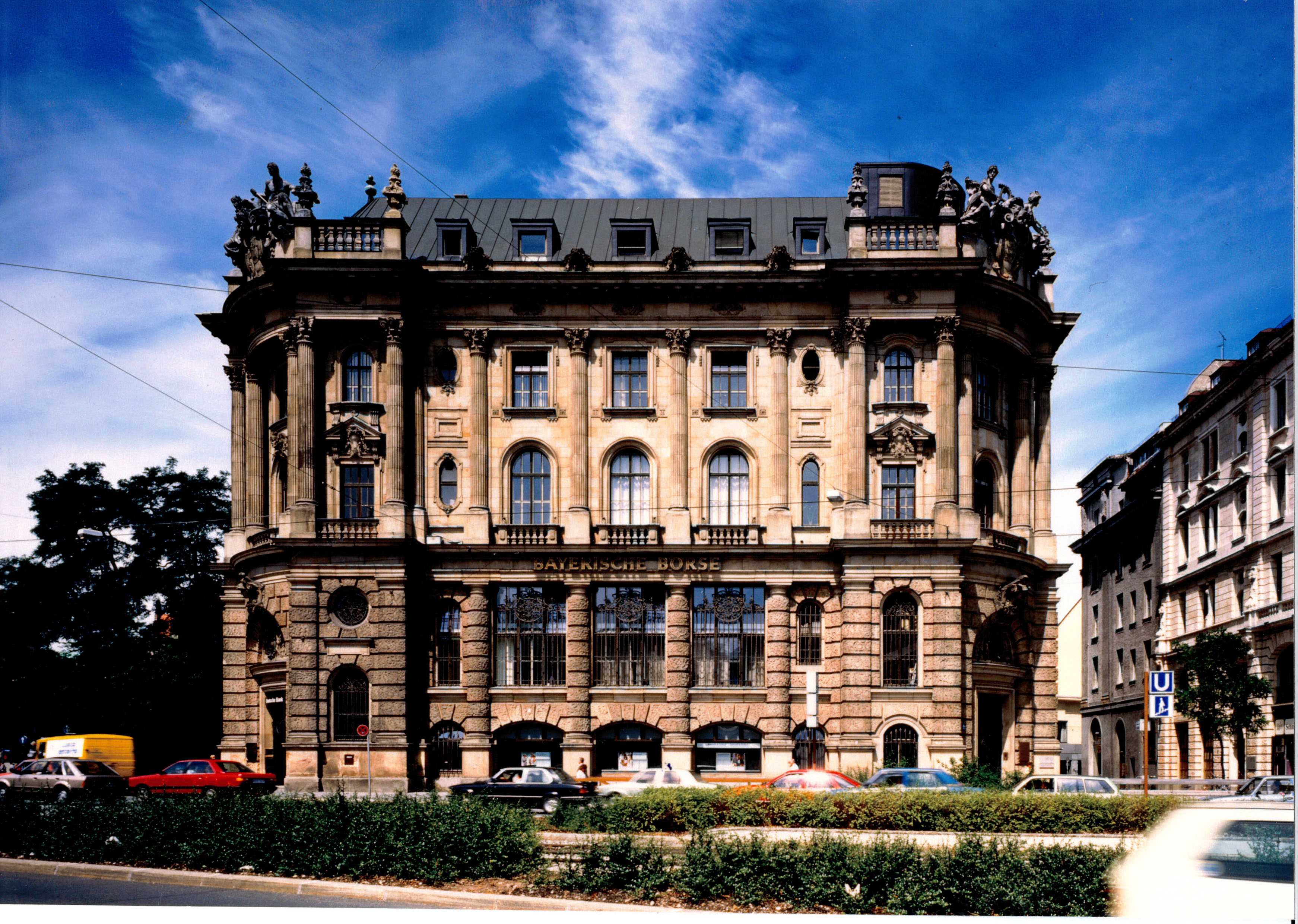 Börse München Building in Munich, Bavaria.